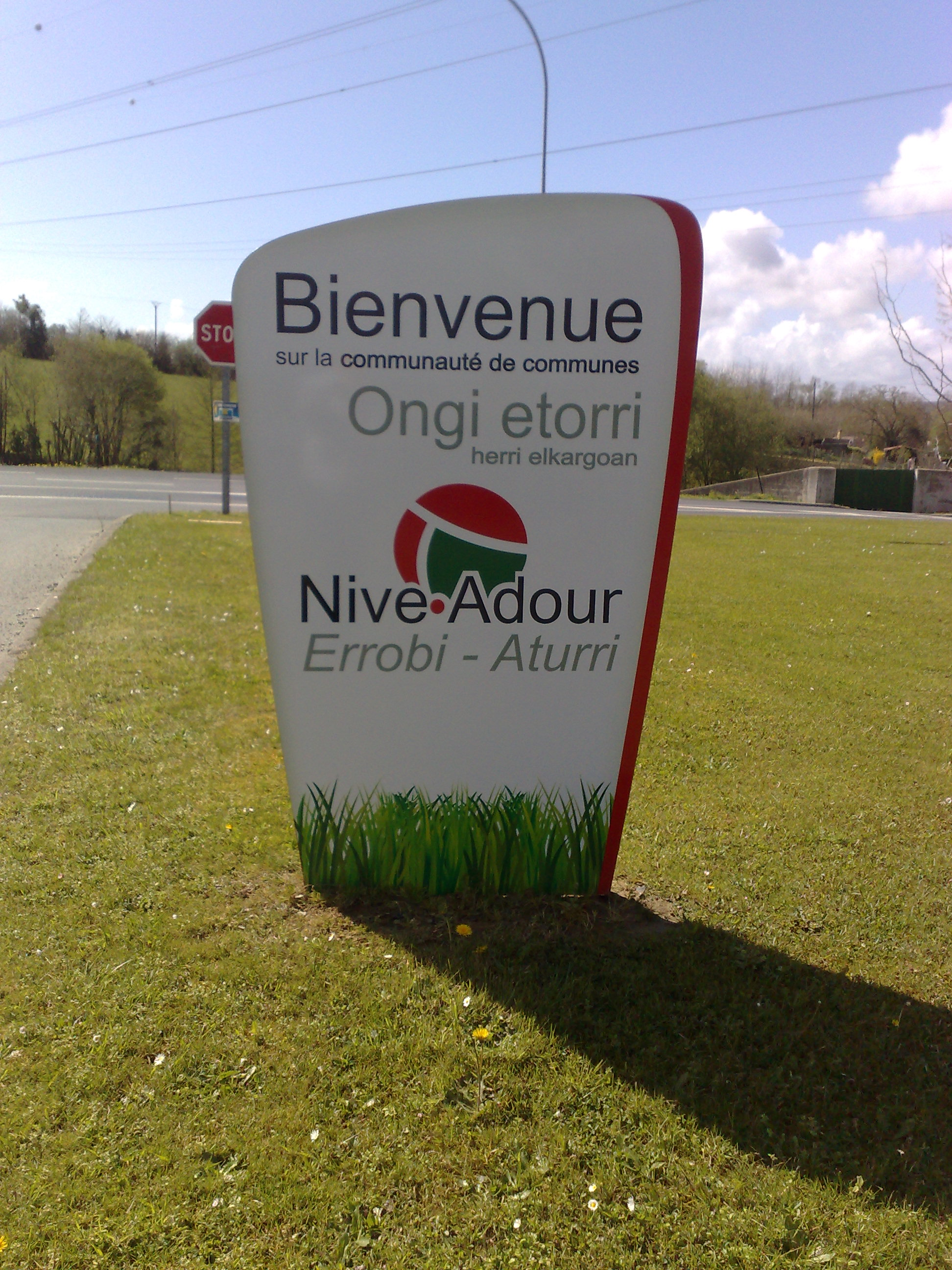 Symbol of the Association of Councils of Errobi-Aturri in Ahurti-Urt, Lapurdi-Labourd, Basque Country.